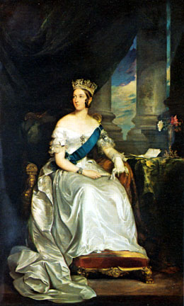 Portrait of Queen Victoria, 1843. Oil on canvas, by Sir Francis Grant.